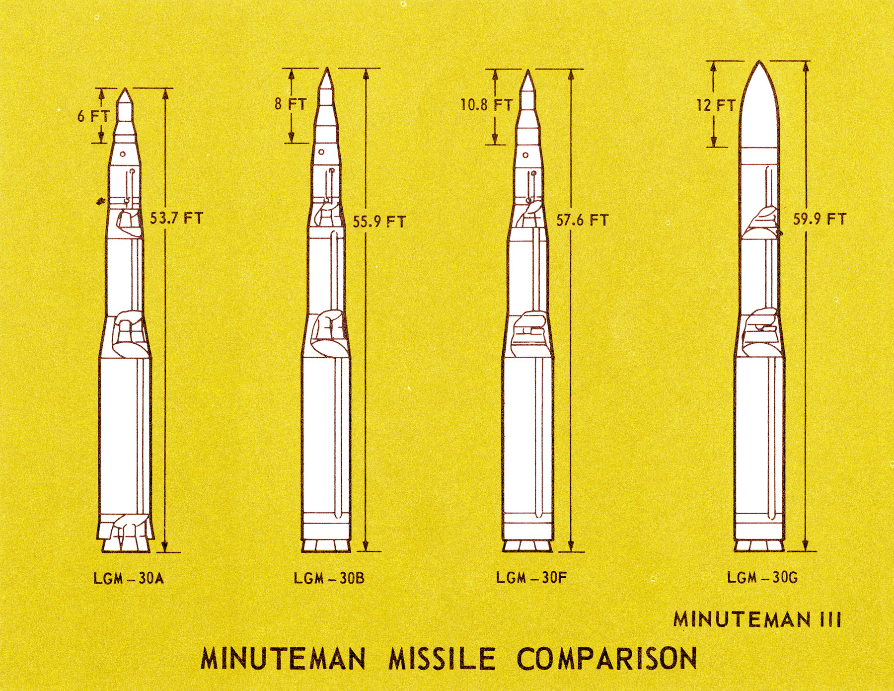 Minuteman versions This comparison chart appeared in May 1968. It introduced Minuteman personnel to the latest missile. In the designation LGM-30G, L means silo-launched, G means surface attack, and M stands for guided missile. (U.S. Air Force photo)